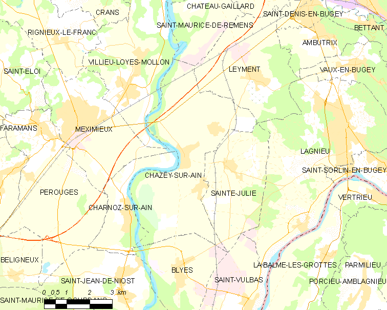 Map of French commune: Chazey-sur-Ain Map commune FR insee code 01099.png